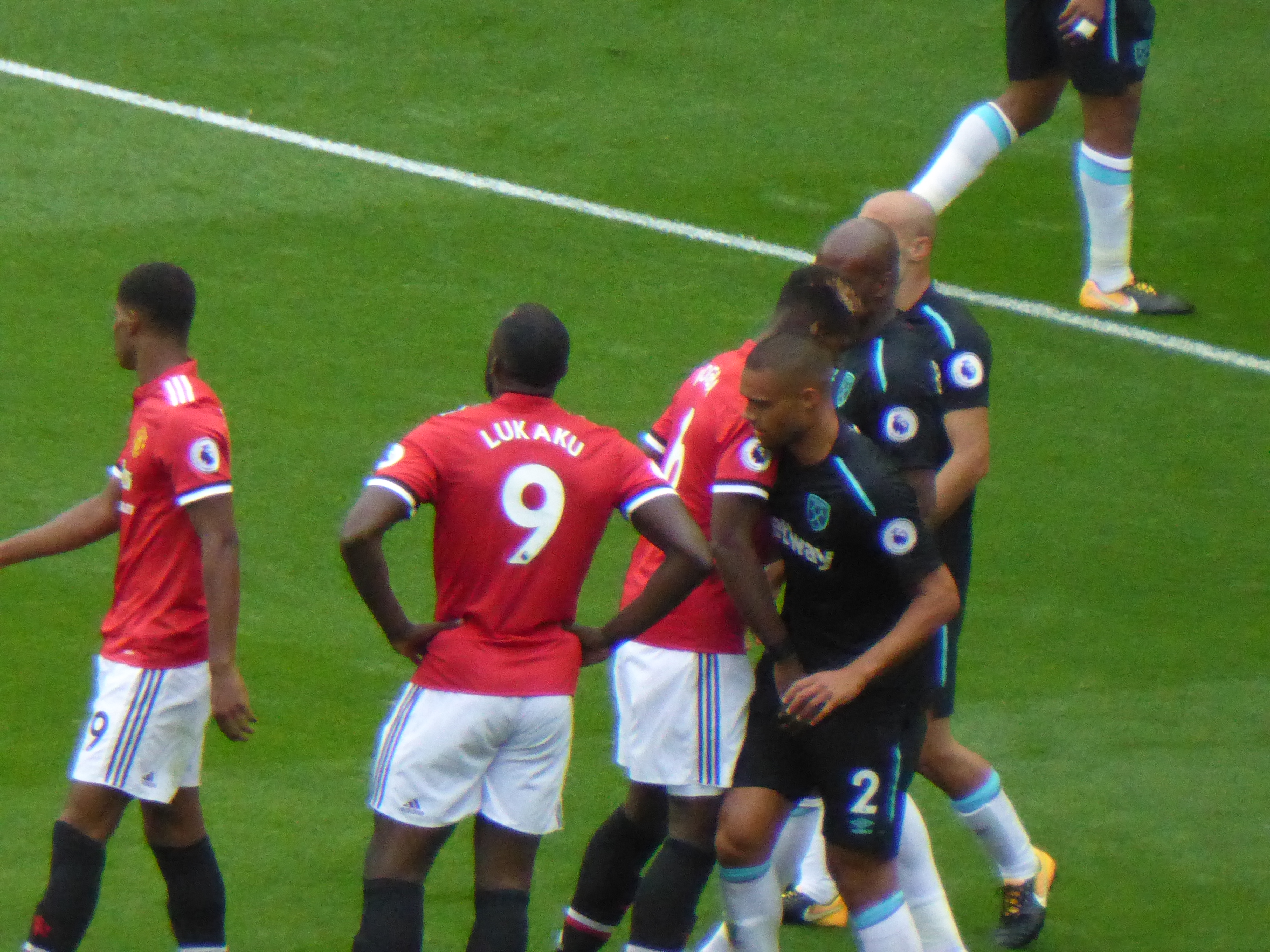 Manchester United v West Ham United (4-0), Premier League, Old Trafford, Manchester, Greater Manchester, England, 13 August 2017